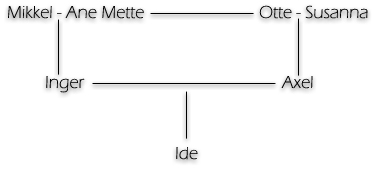 A form of Family tree of the book "Kongens Fald"/"King Fall", making it easier to understand the book.